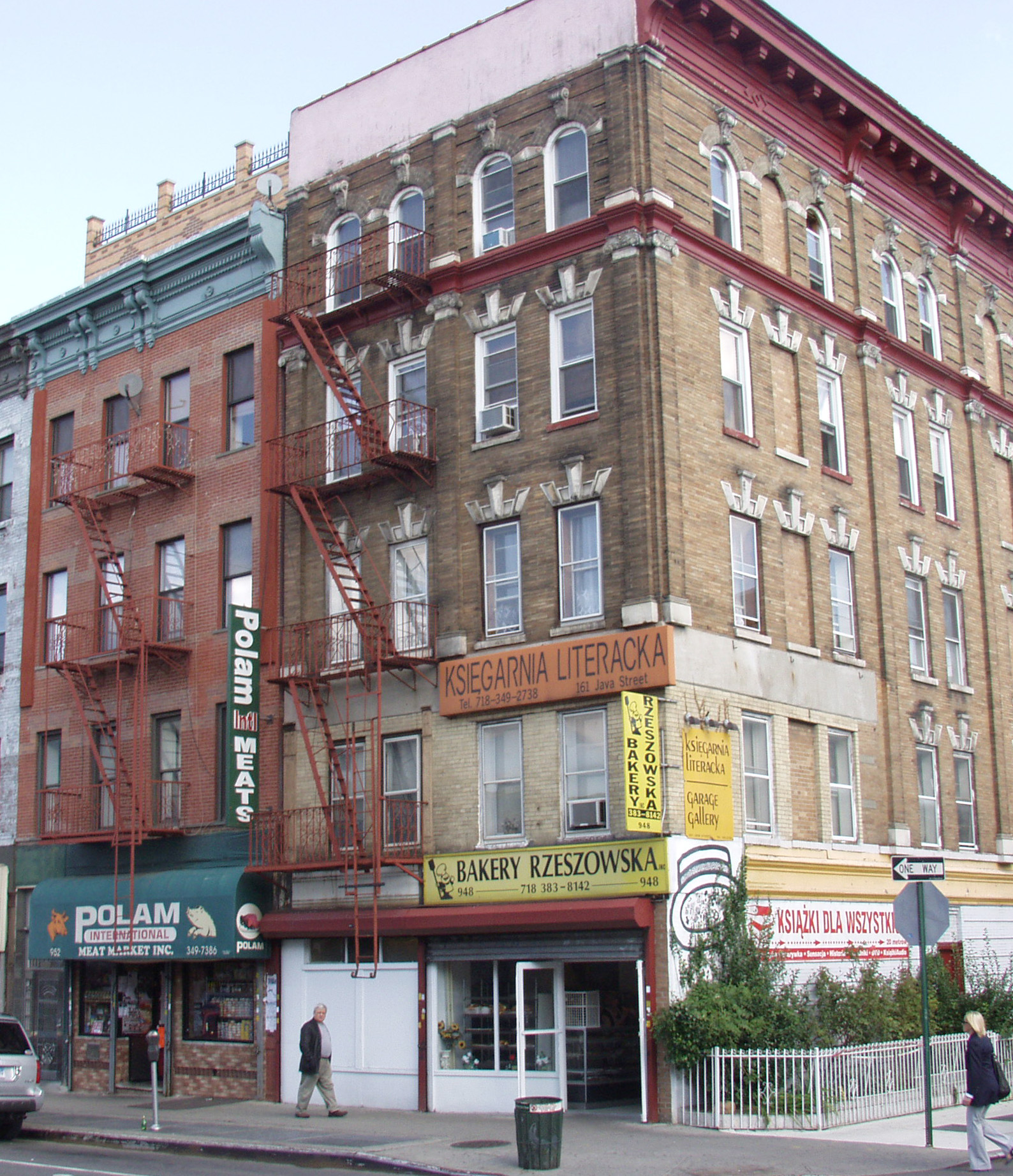 Looking northeast across Manhattan Avenue and Java Street at Polish stores on a sunny midday.